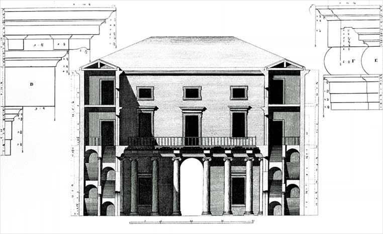 Palazzo Valmarana in Vicenza built by Andrea Palladio in 1565. Drawing from Ottavio Bertotti Scamozzi, 1776.